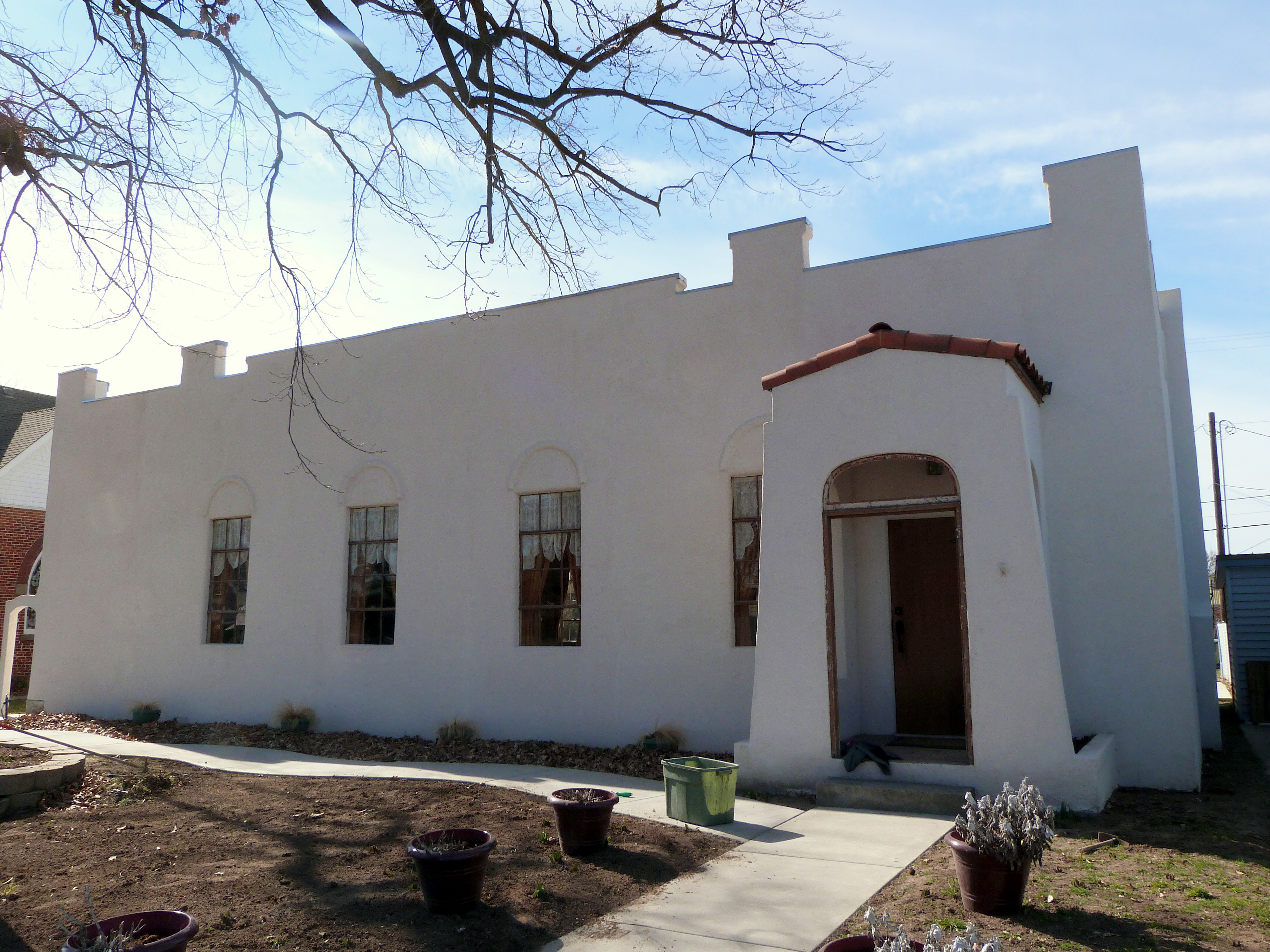 The historic Portia Club, located at 225 North 9th Street in Payette, Idaho, United States, is listed on the US National Register of Historic Places.